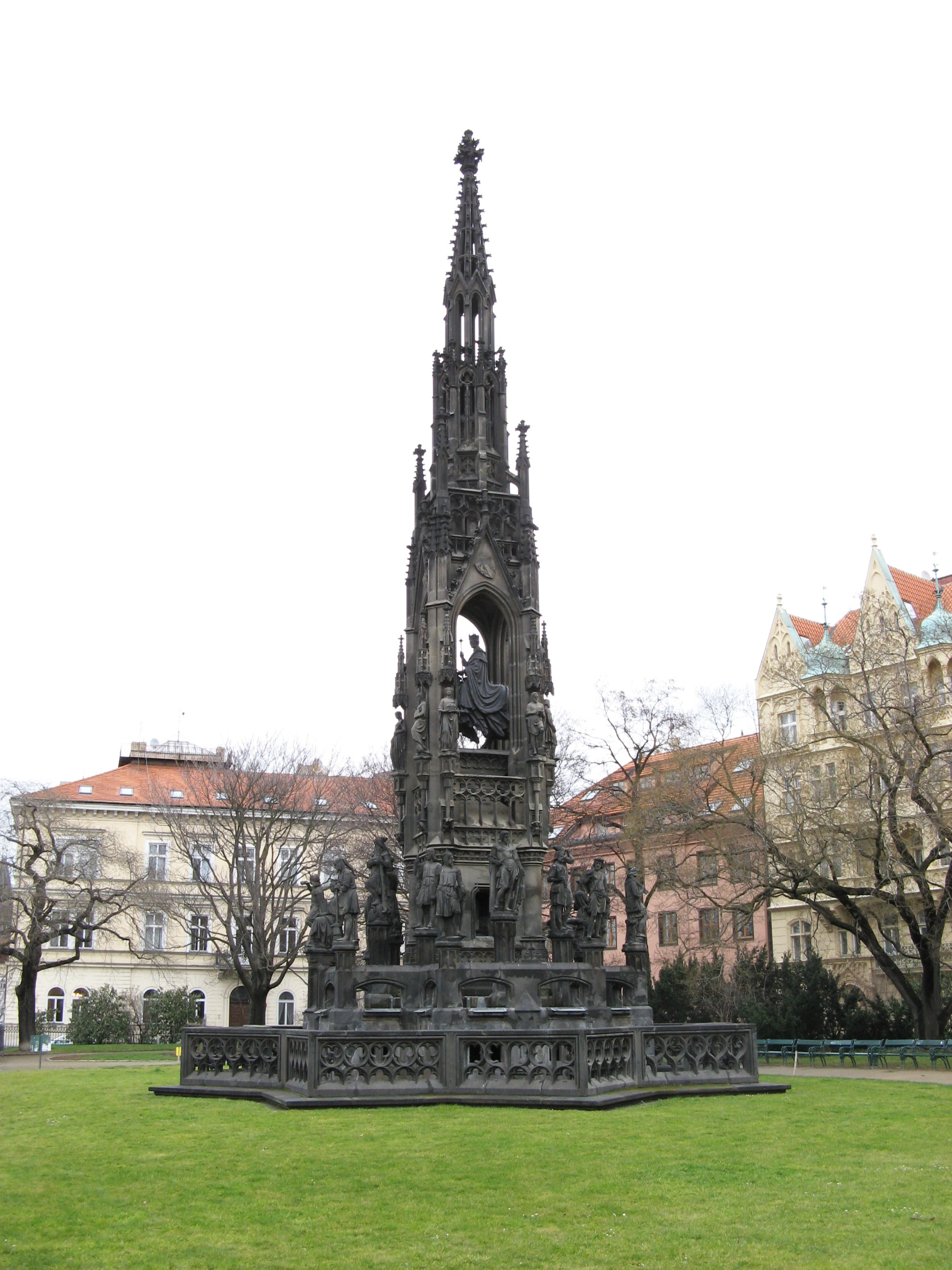 Monument of Francis I, Emperor of Austria in Prague. Also known as Kranner's fountain. Built 1845-1850.